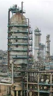 This is a photograph of a large-scale industrial vacuum distillation column. It is intended for use in the English Wikipedia's "Vacuum Distillation" article and anywhere else in Wikipedia that it may be useful.